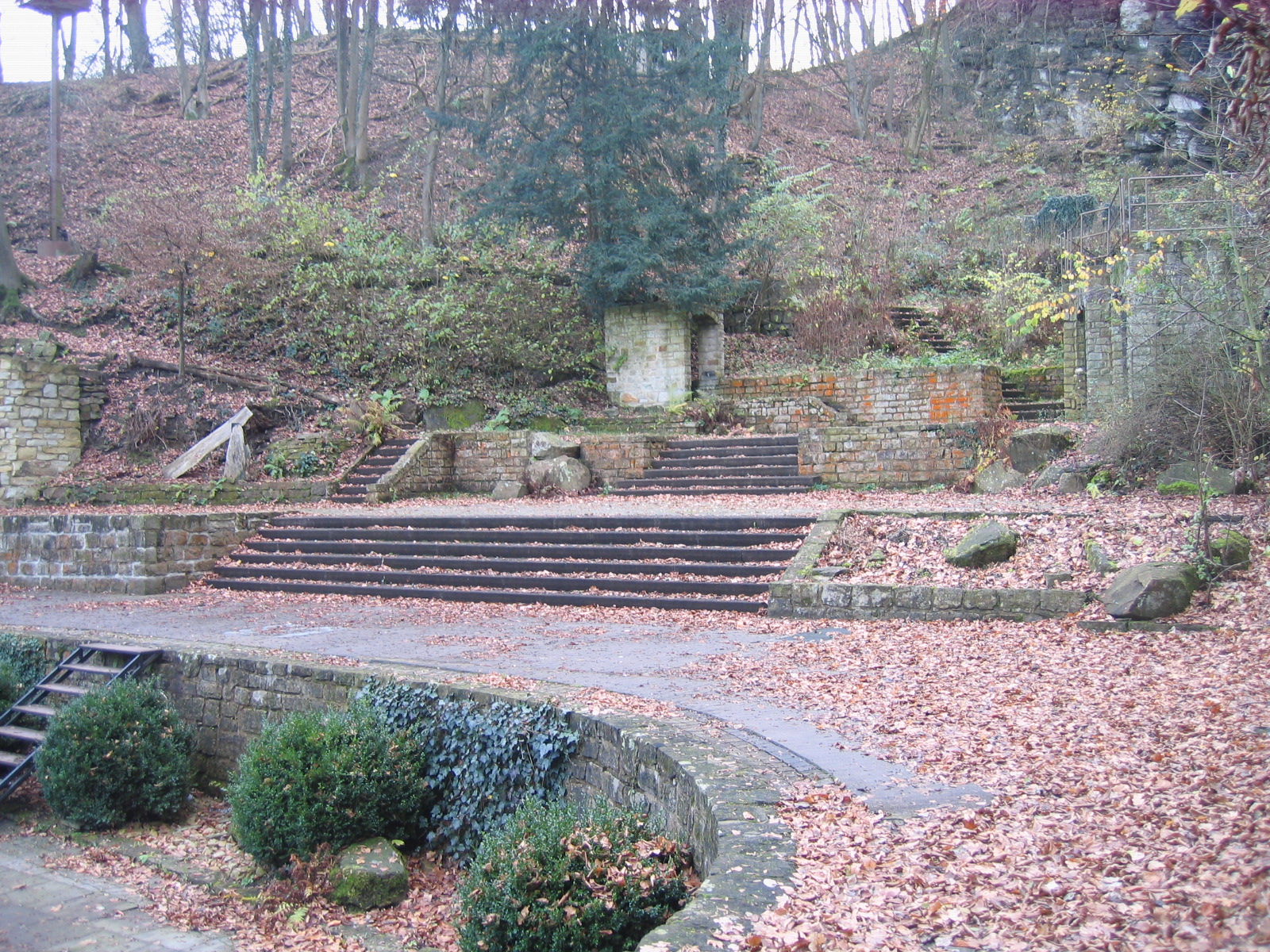 Goethe Open-Air Theatre near Wilhelm I monument near Porta Westfalica, District of Minden-Lübbecke, North Rhine-Westphalia, Germany.